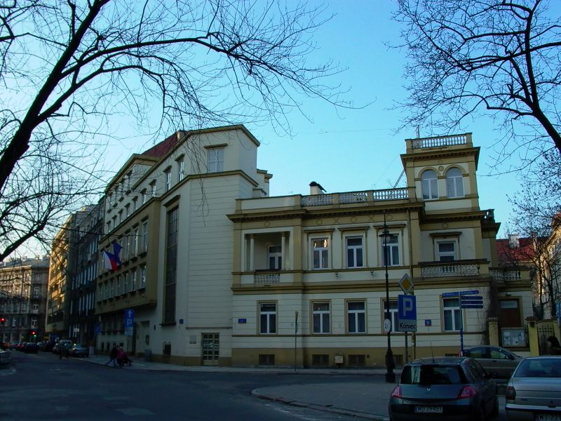 Koszykowa Street in Warsaw, Poland. Embassy of the Czech Republic.